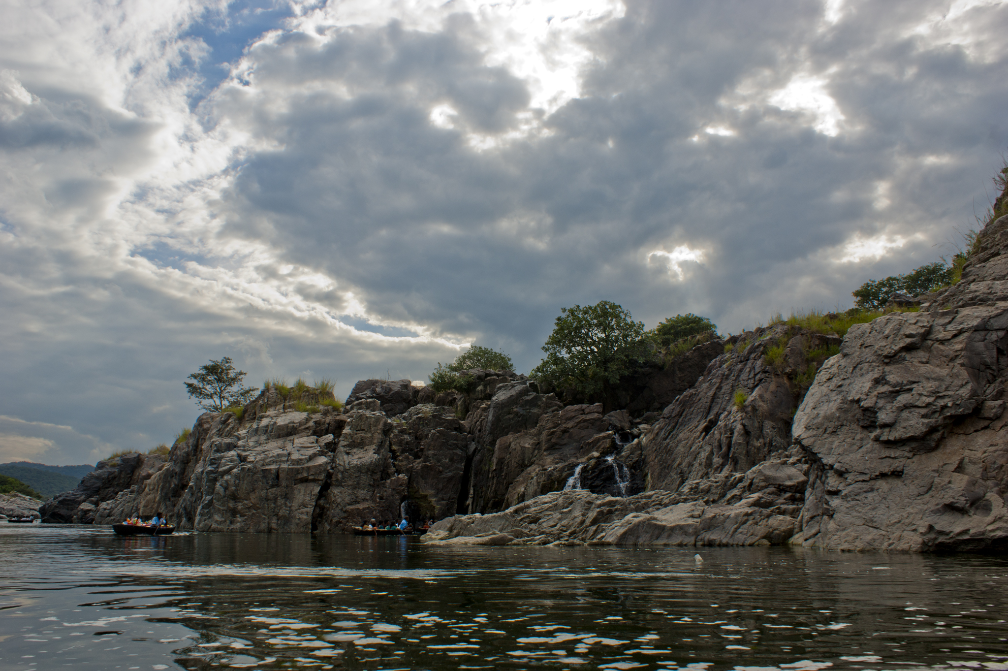 Water log at Hogenakkal.